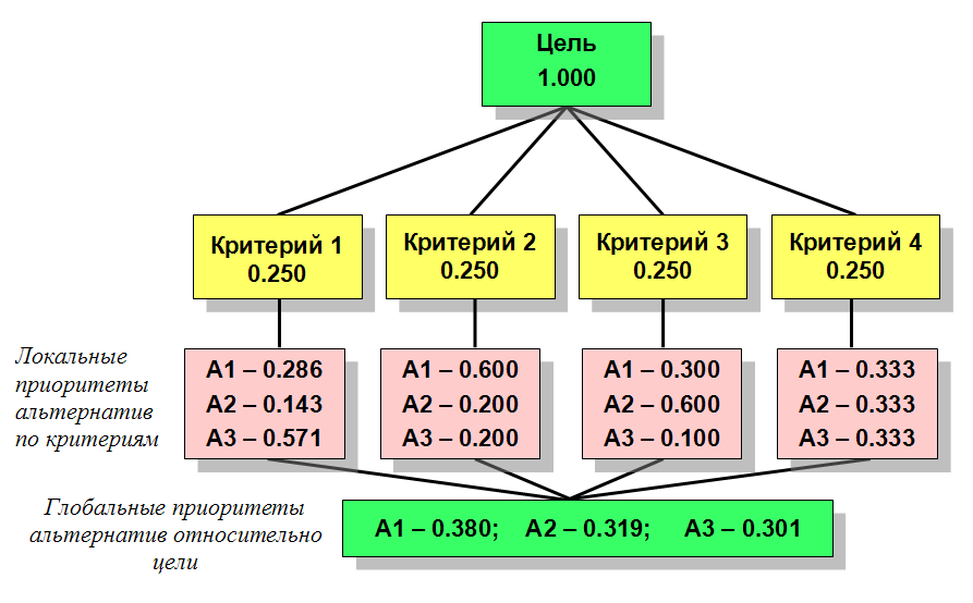 Example for Russian article on Analytic Hierarchy Process